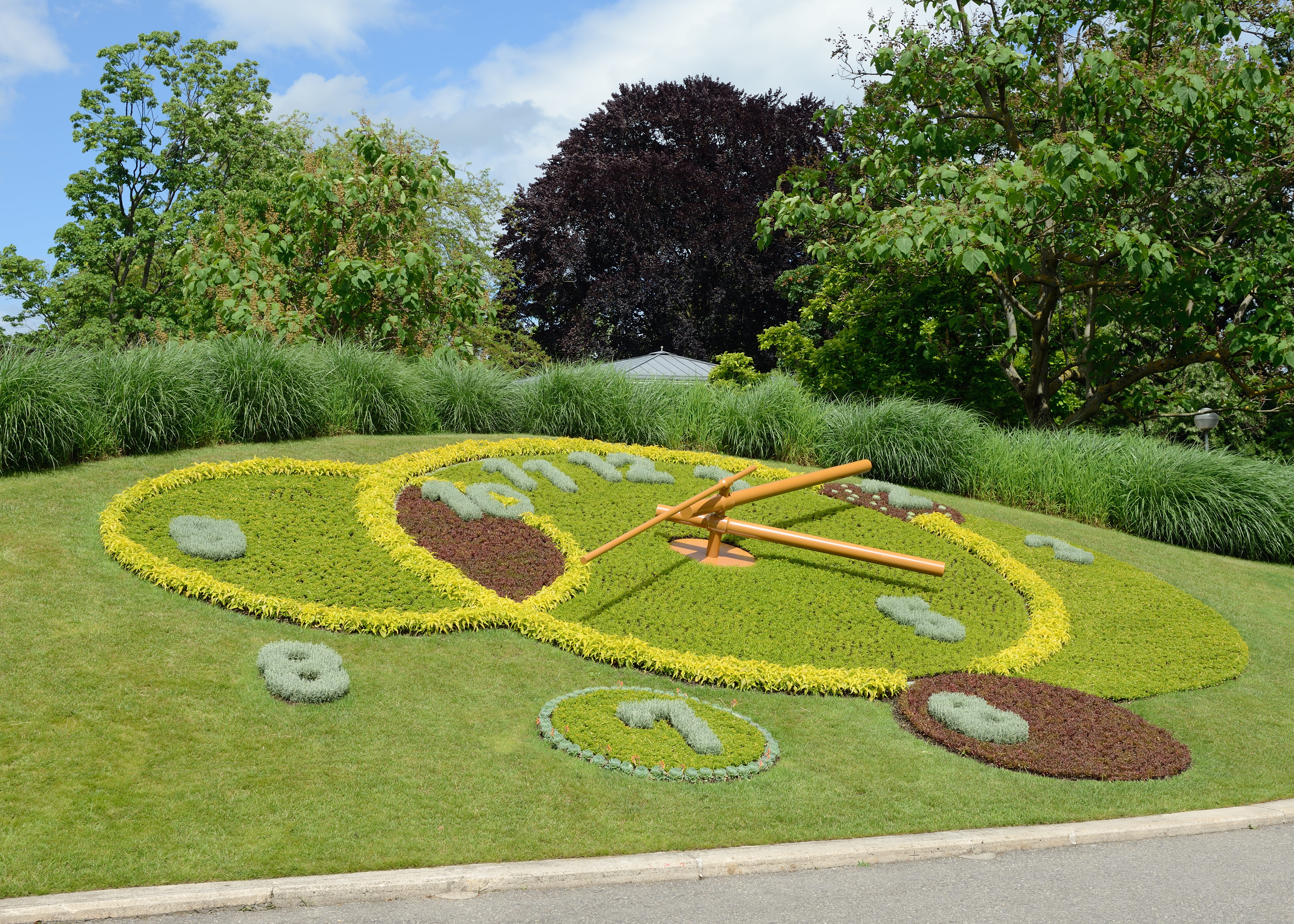 Geneva, Switzerland: Flower clock in the Jardin anglais.